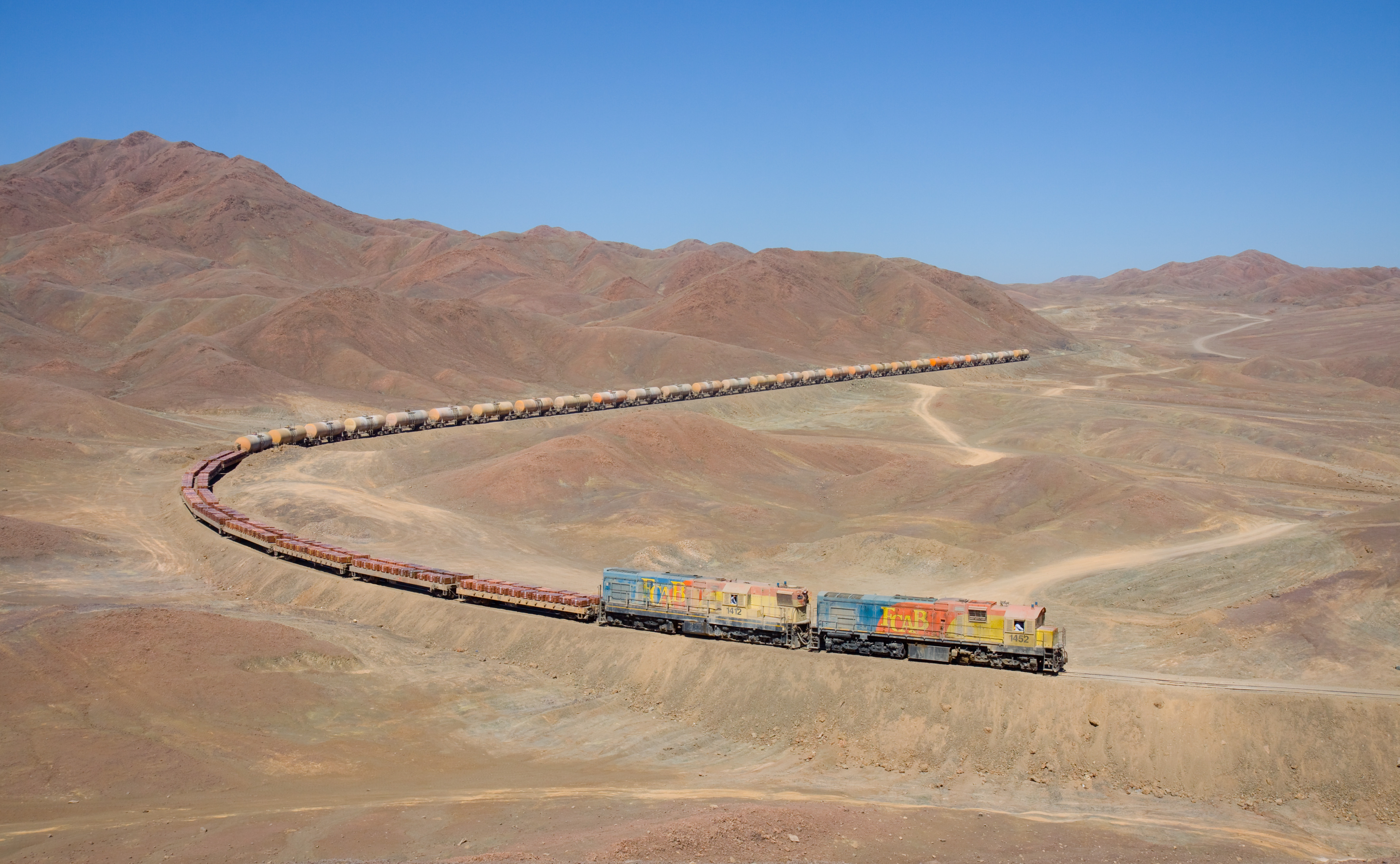 FCAB engines Clyde GL22C 1452 and G12U 1412 with empty sulfuric acid tank cars and loaded copper flatcars are on their way to Antofagasta, betweeen Cumbre and Prat, Chile.